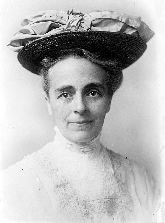 Caherine W. McCulloch